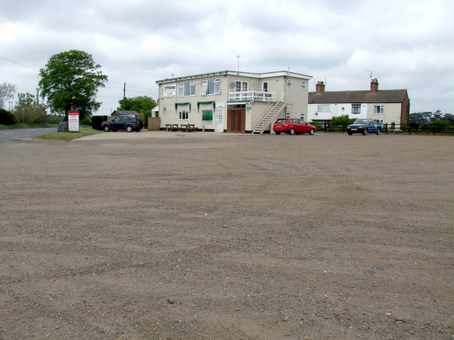 Langrick Station Café, Langrick This is the site of the former Langrick Railway Station. On 8th March 1937 an up express passenger train from Lincoln to Boston was approaching Langrick Station at high speed when it became almost completely derailed. The engine itself remained on the rails, but its tender and six carriages were derailed. There were no serious injuries.